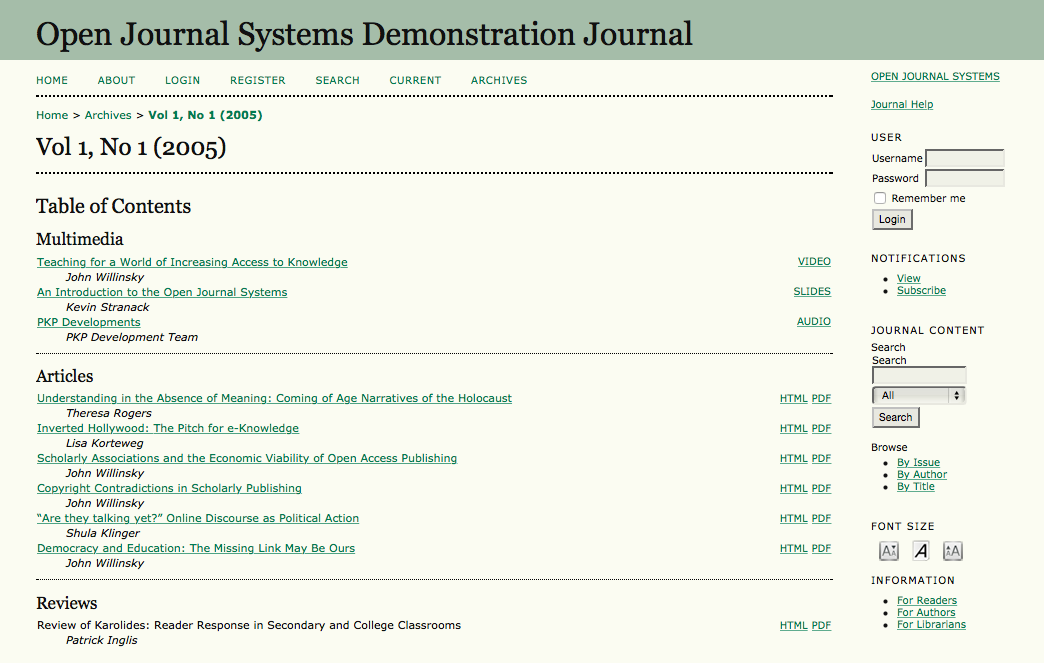 Demonstration interface of OJS